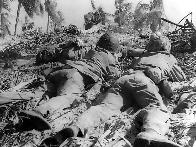 Troops pinned down by enemy fire.